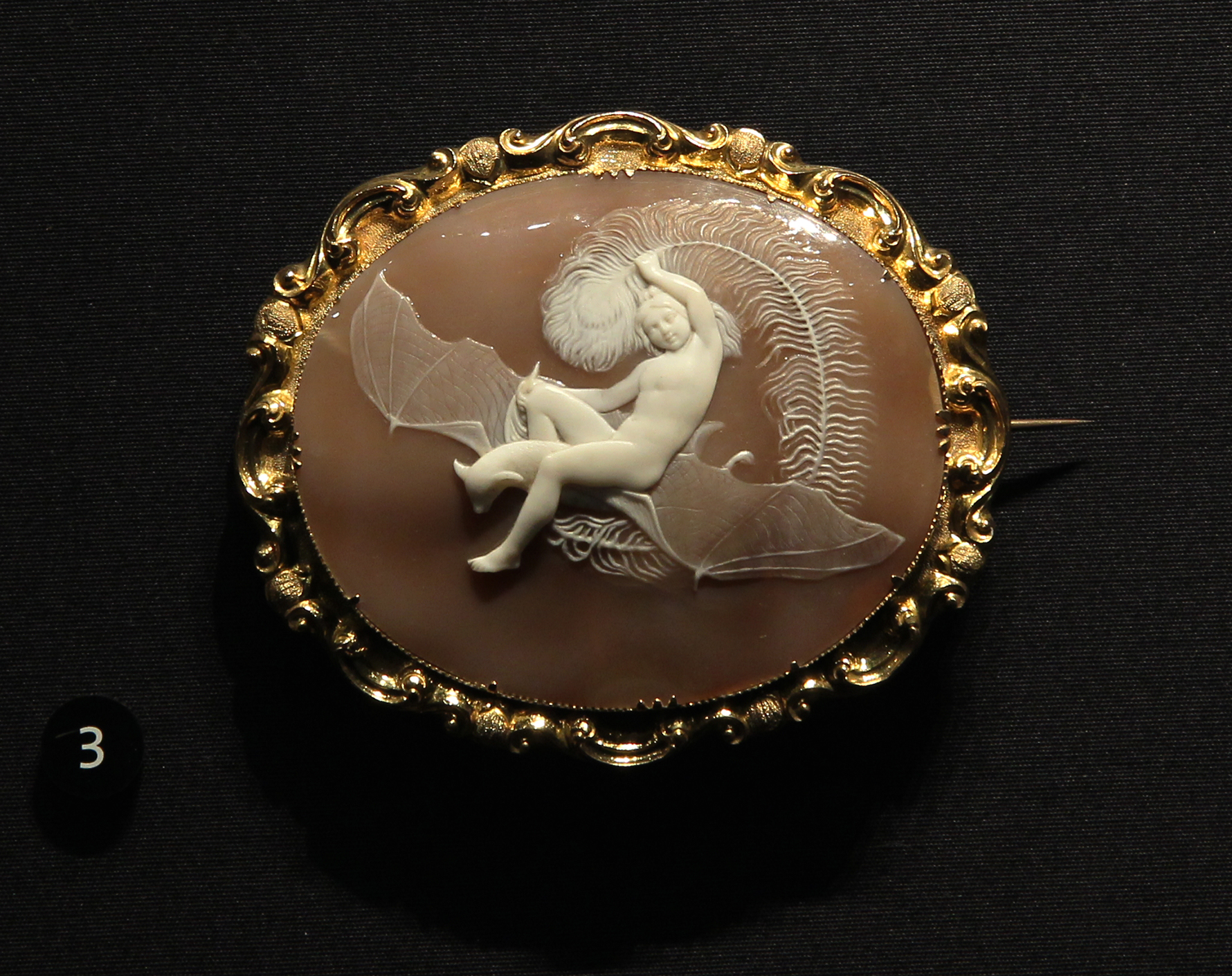 Brooch : cameo set in gold, England, about 1840. The shell cameo of Ariel flying on the back of a bat, probably by the studio of Tommaso Saulini ( 1784-1864 ), is based on an oïl painting by Joseph Severn ( On the bat's back I do fly, 1826 ). This painting is displayed in the Victoria and Albert Museum too. Victoria and Albert Museum, no M.274-1921 . ( Rooms 91-92. Photographs in these rooms are now allowed.)